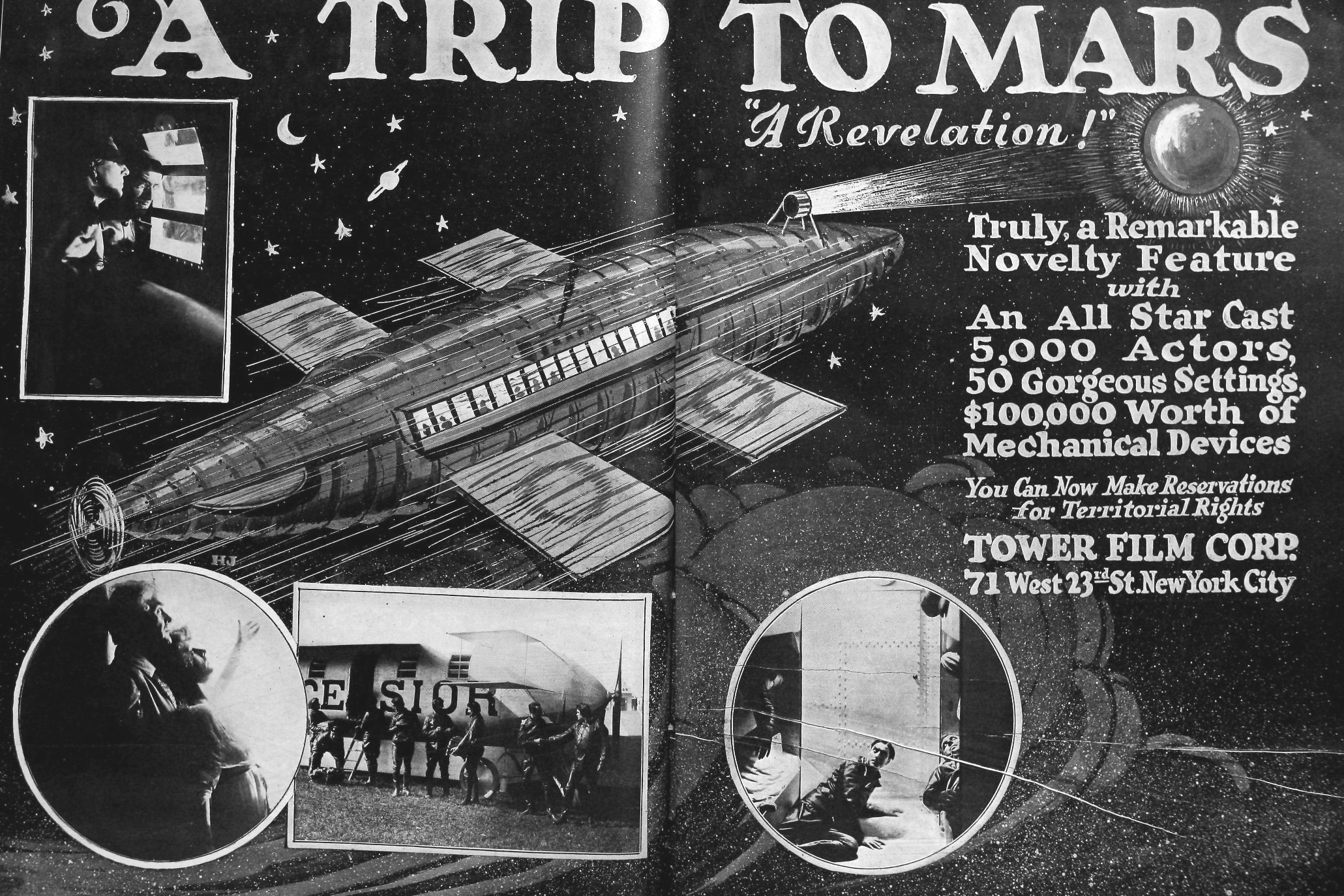 Advertisement for A Trip to Mars published in Motion Picture News 19 July 1920.